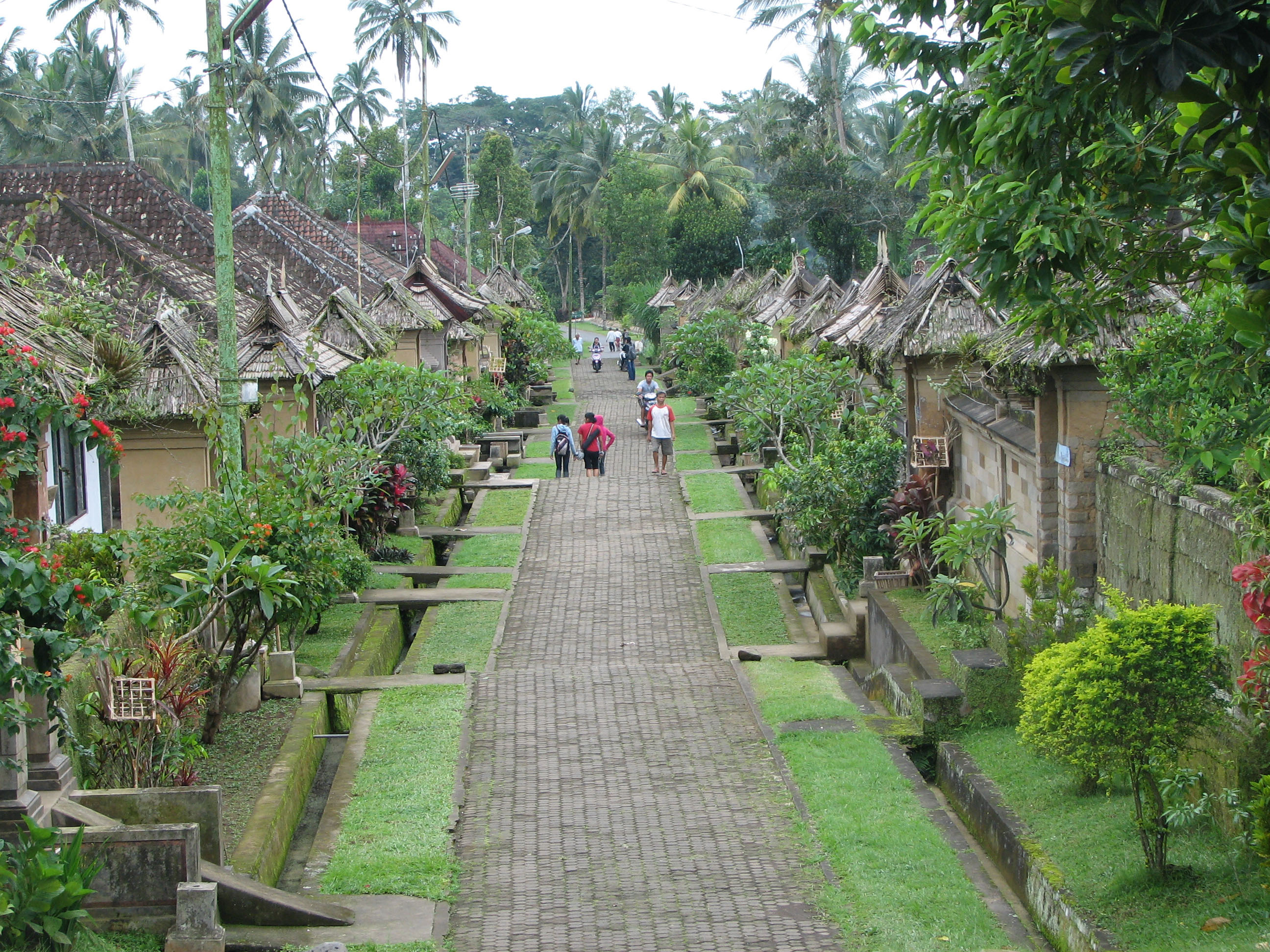 Community village of Penglipuran (Bali Island, Indonesia)